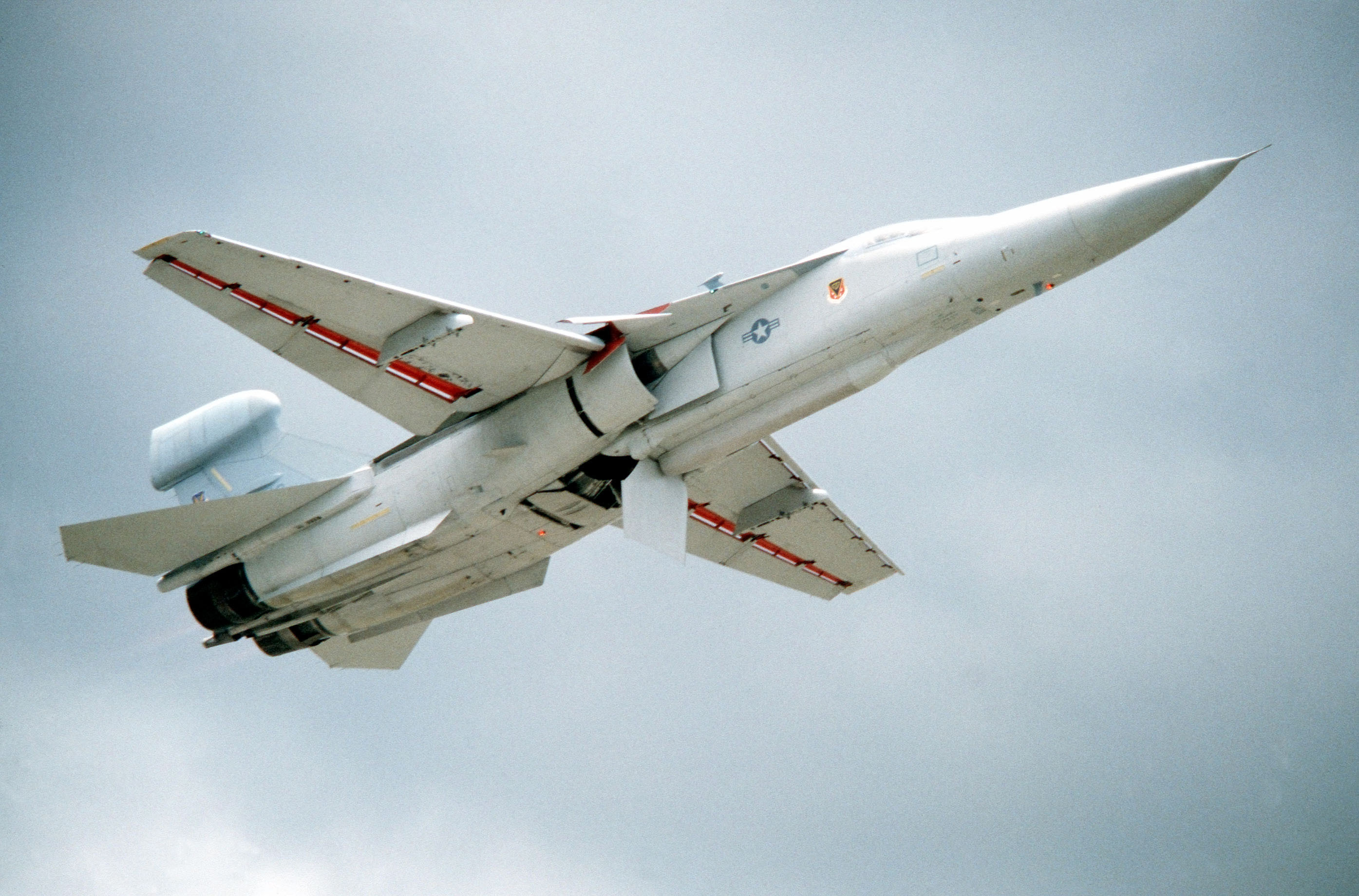 A right underside view of an US Air Force (USAF) EF-111A Raven aircraft in flight during Theater Force Employment Exercise IV.